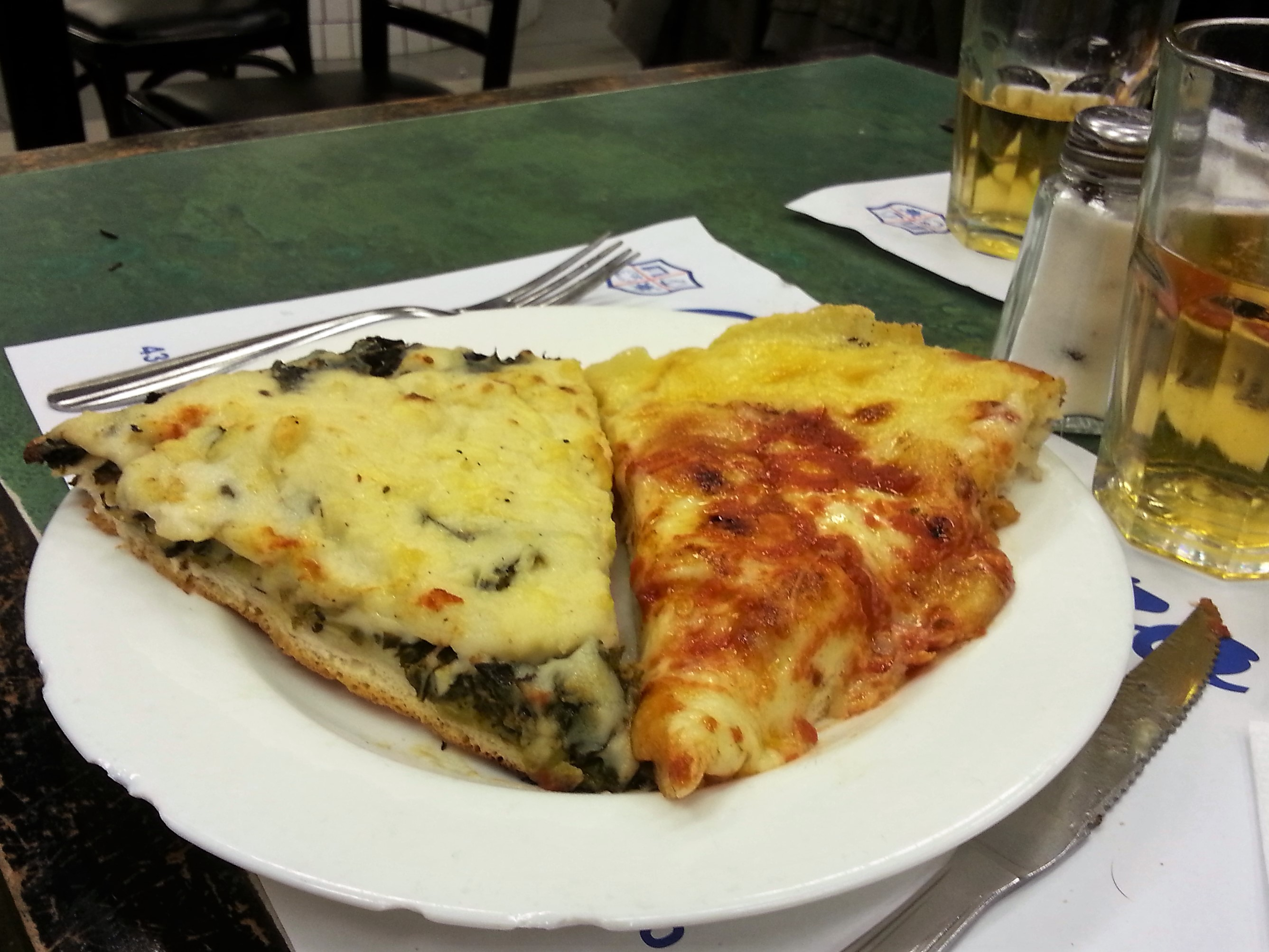 Pizza